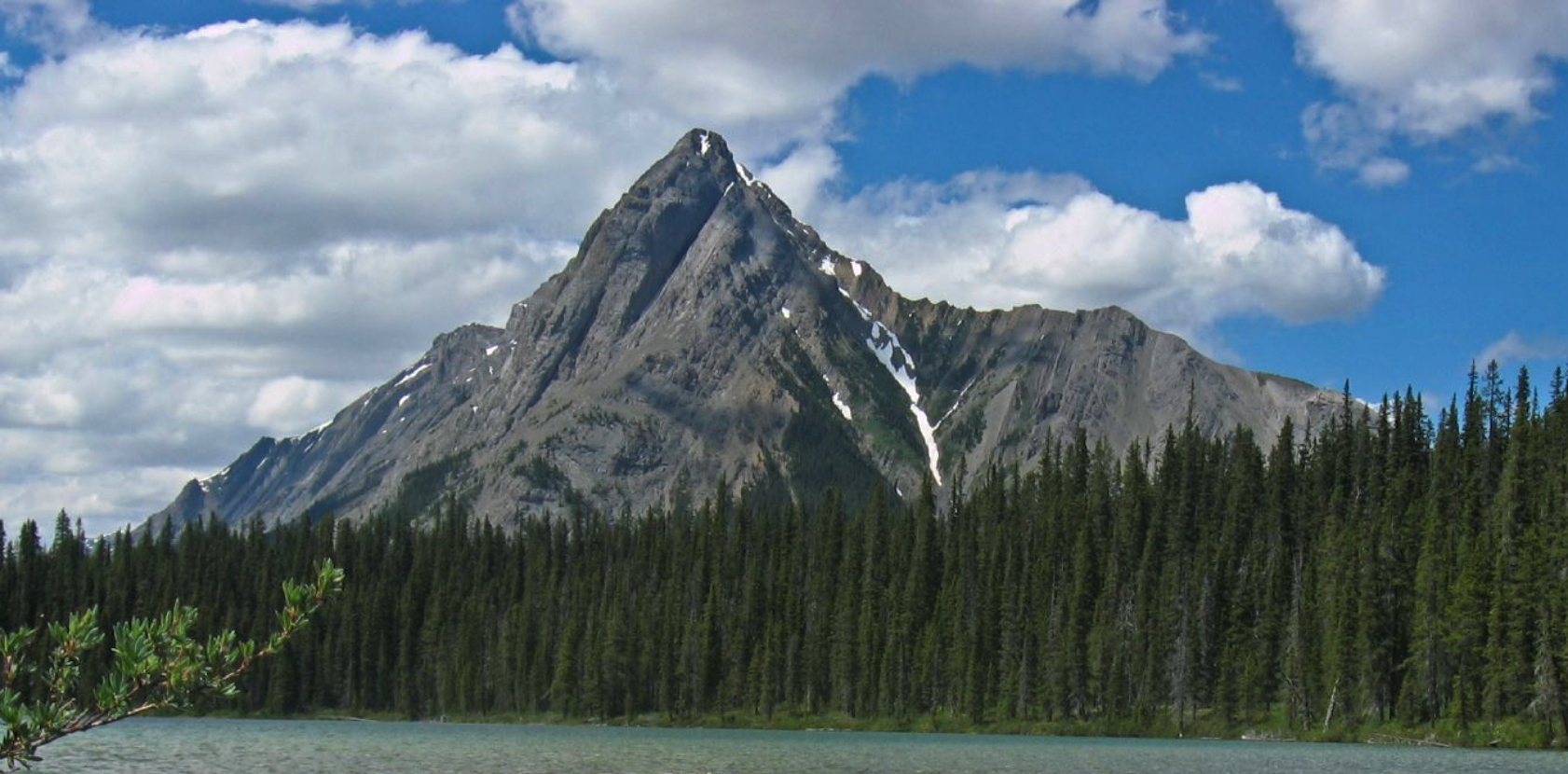 Cone Mountain in Kananaskis Country